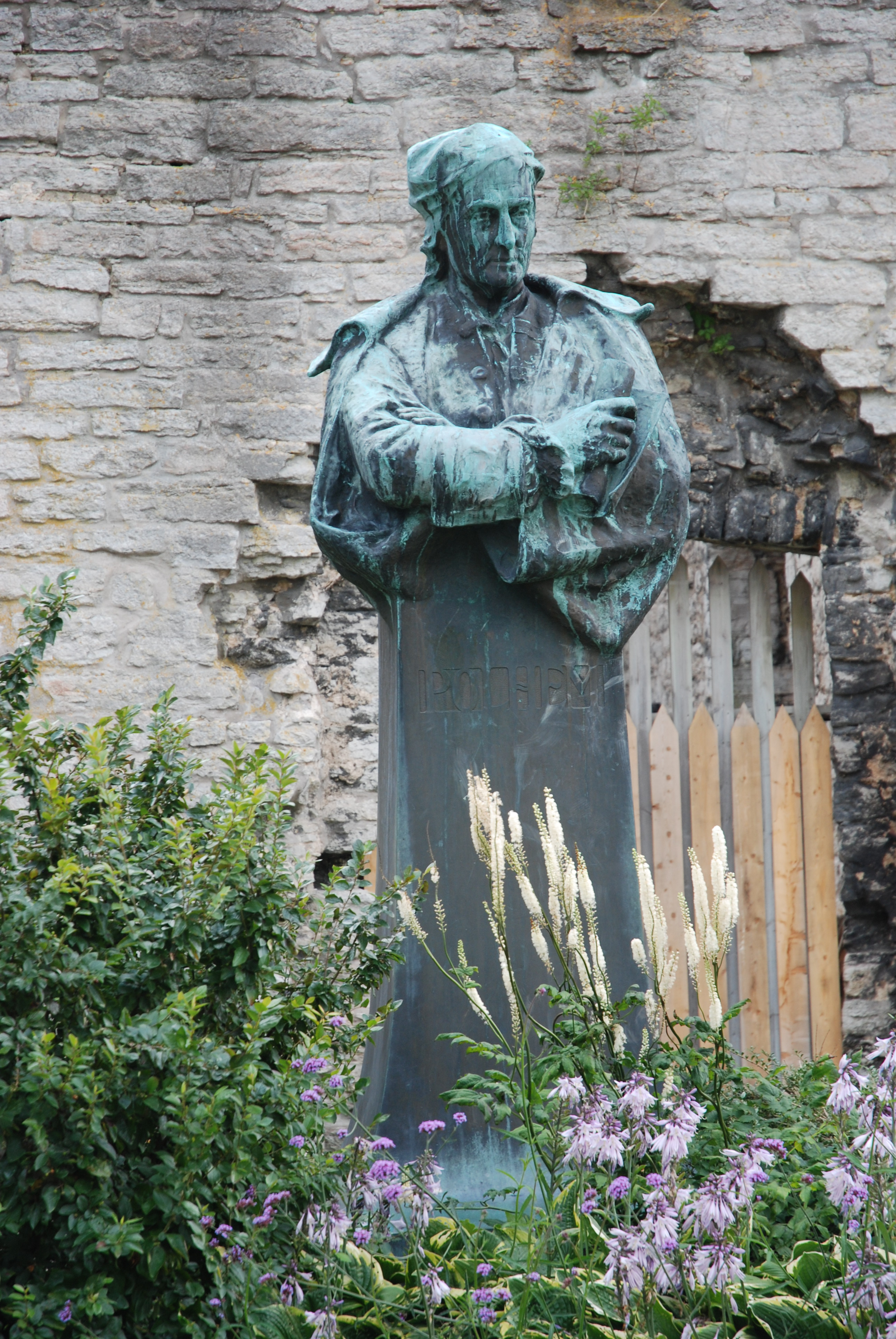 Christopher Polhem', by Theodor Lundberg, bronze, S:t Drottensgatan/S:t Hansgtan, Visby, Sweden